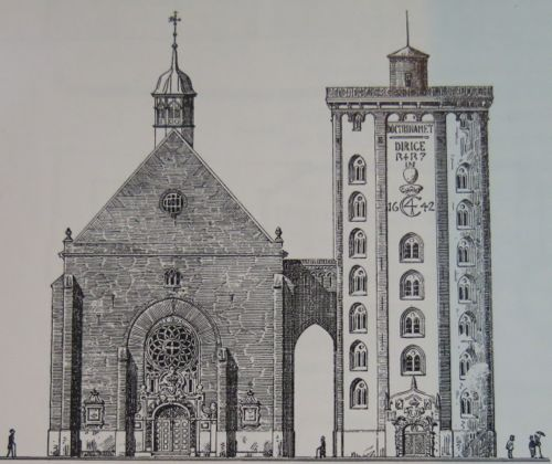 One of Anton Rosen's renderings made in connection with his proposal to move Rundetårn in Copenhagen, Denmark